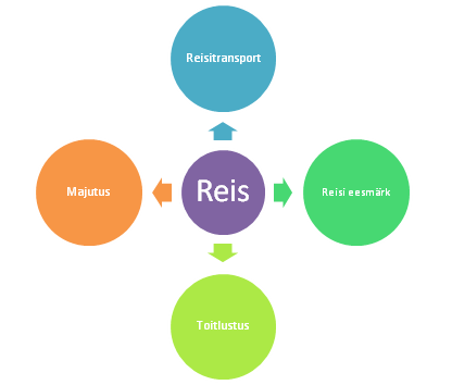 reisi 4 komponenti